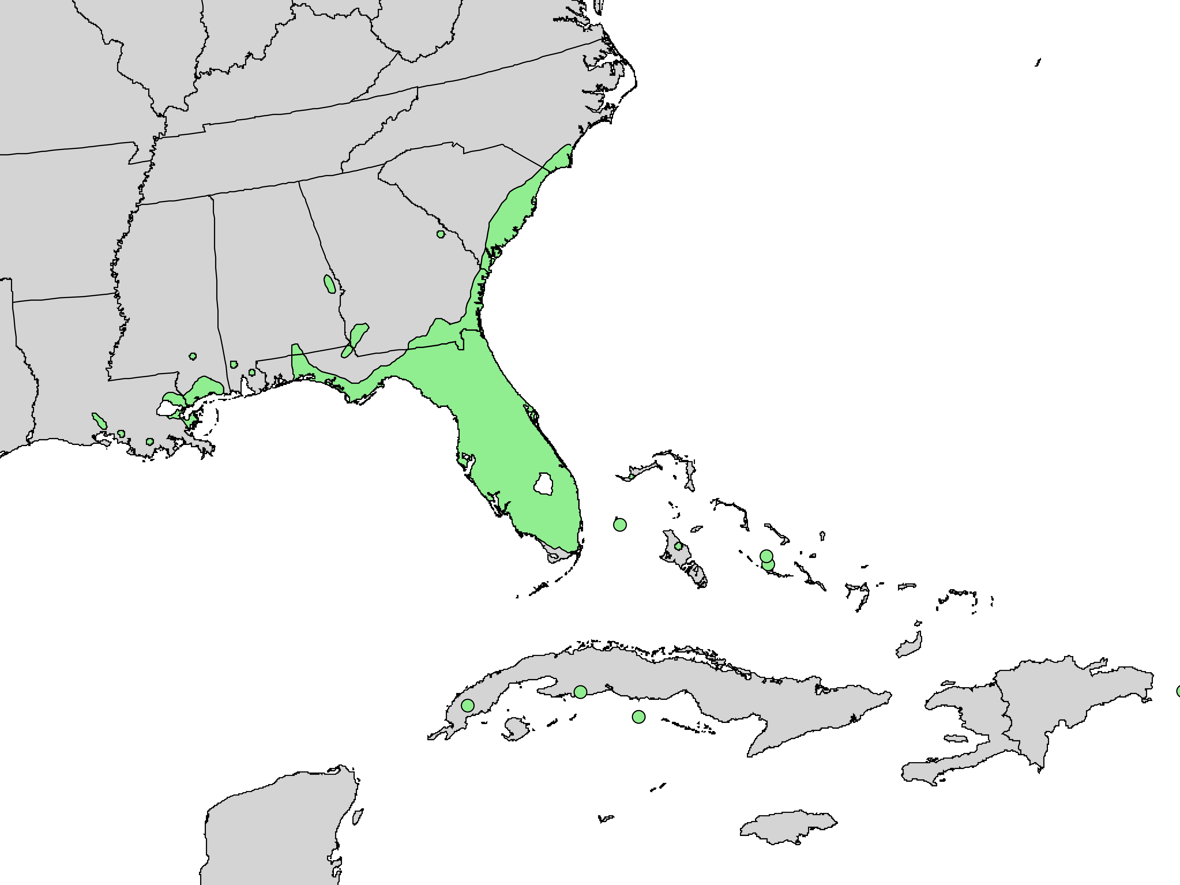 Natural distribution map for Ilex cassine (dahoon holly)